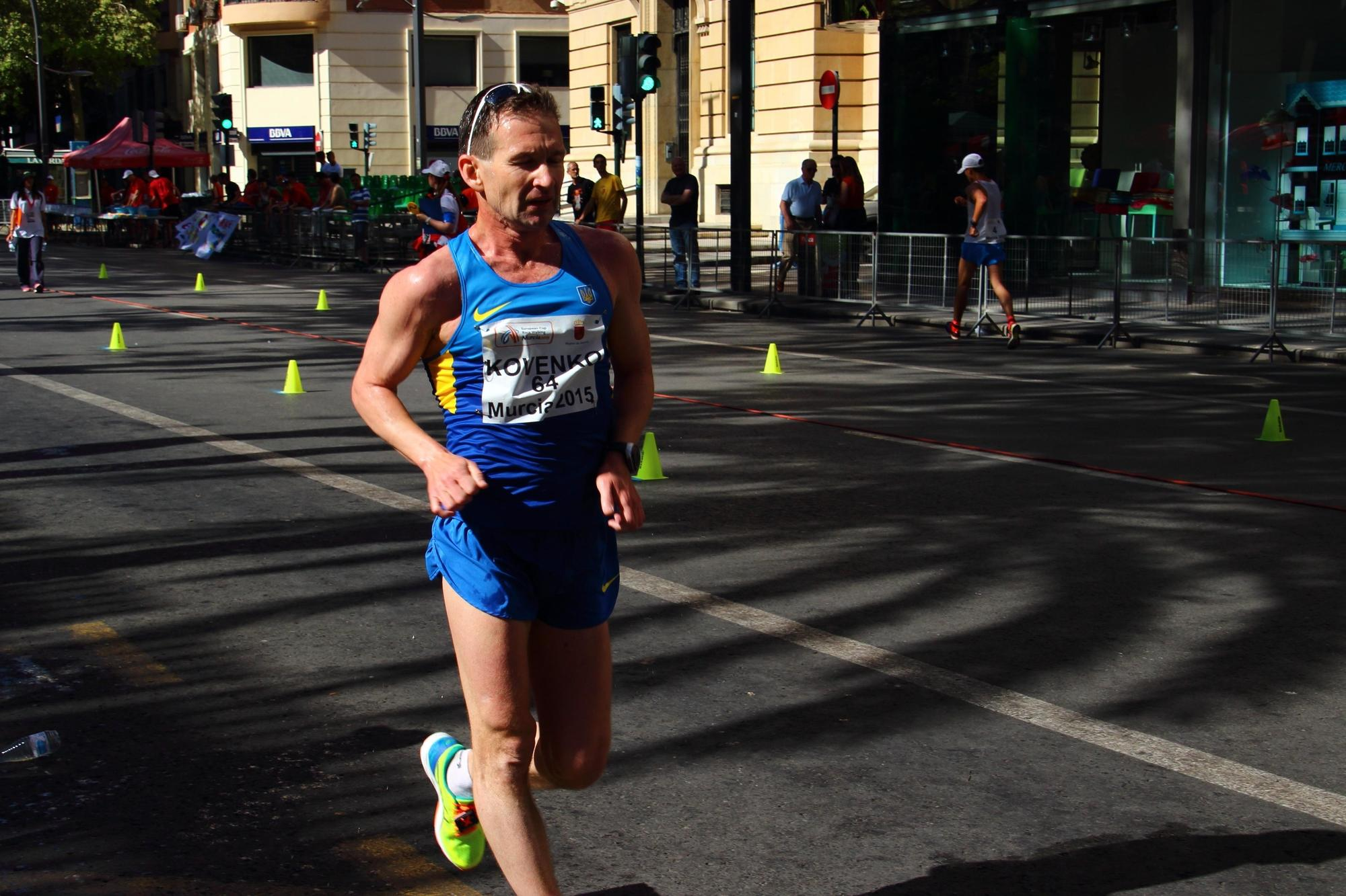 64-Andriy Kovenko (UKR) in the 11th European Cup Race Walking Murcia ESP 17 May 2015